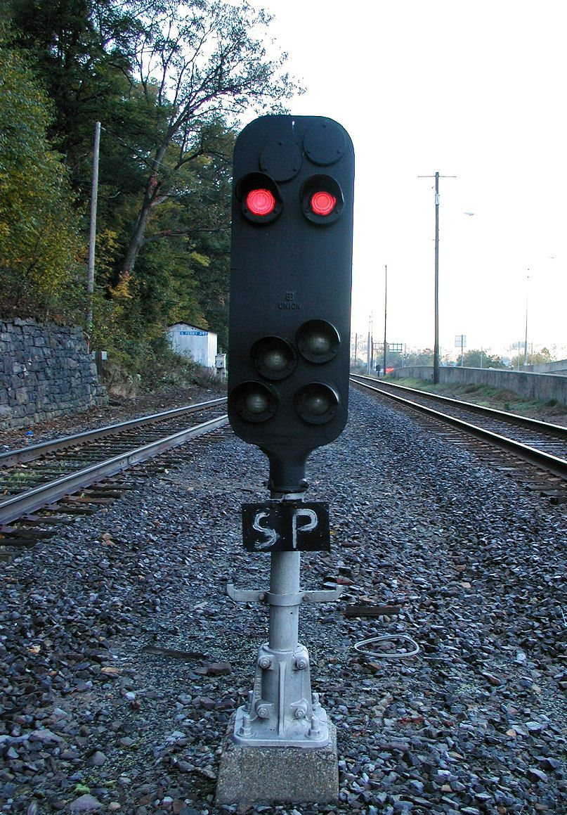 Pennsylvania Railroad Pedestal type position light signal with red-stop lenses at CP-SOUTH FERRY near Duncannon . This signal governs southbound movements off of the controlled siding. The hand written SP board indicates to train crews that this signal is connected to a slide fence.